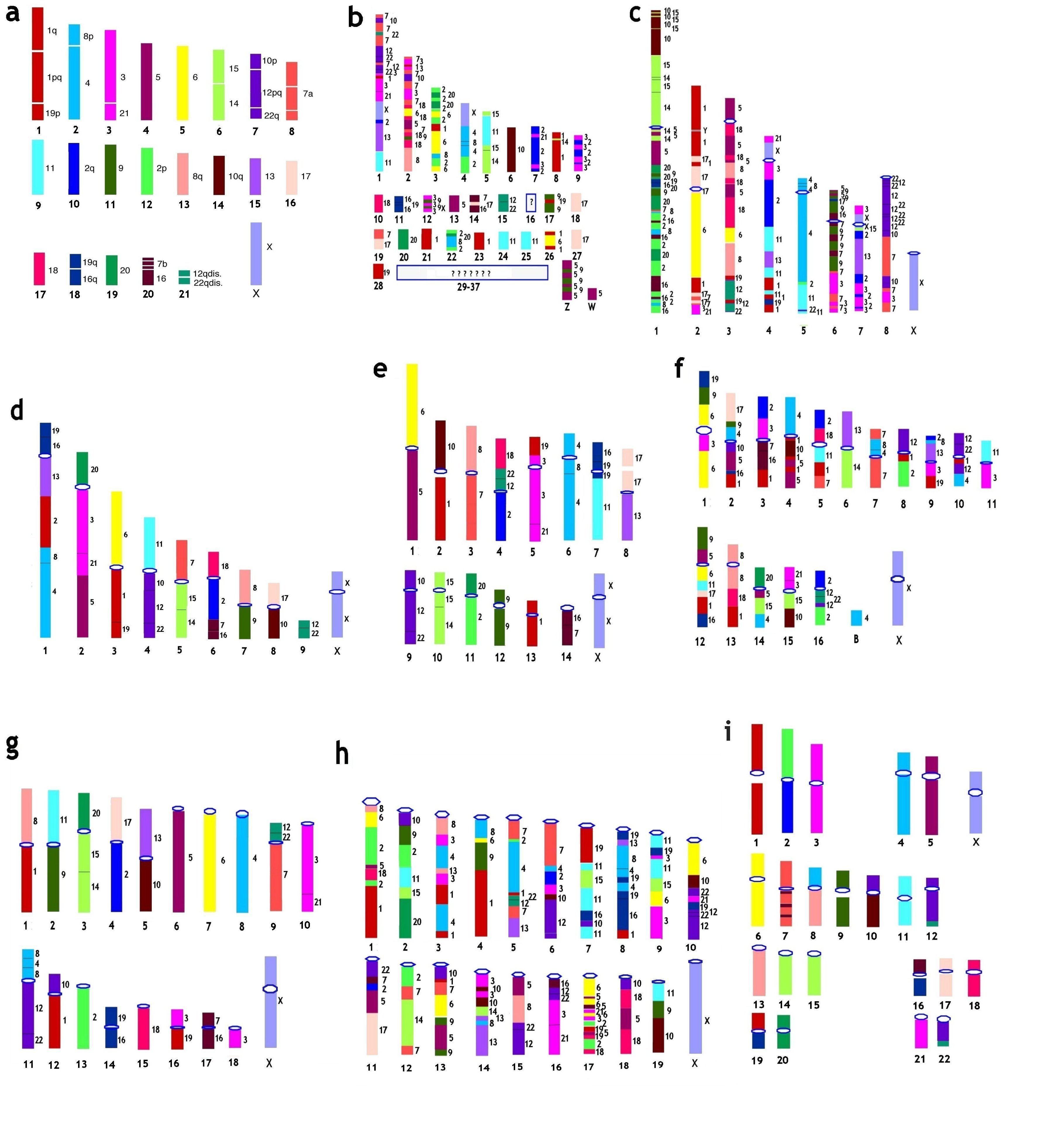 A comparative chromosome map of birds and mammals inferred human homologies (right numbers) on chromosome ideograms. a. Reconstructed karyotype of the ancestral Eutherian genome. Each chromosome is assigned a specific color. These colors are used for mark homologies in ideograms of chromosomes of other species (Figure 5b-5i) b. Ideogram of chicken (Gallus gallus domesticus, 2n = 78) chromosomes. The reconstruction is based on alignments of chicken and human genome sequences. c. Ideogram of short-tailed opossum (Monodelphis domestica, 2n = 18) chromosomes. The reconstruction is based on alignments of opossum and human genome sequences. d. Ideogram of aardvark (Orycteropus afer, 2n = 20) chromosomes. The reconstruction is based on painting data. e. Ideogram of mink (Mustela vison, 2n = 30) chromosomes. The reconstruction is based on painting data. f. Ideogram of the Red fox (Vulpes vulpes, 2n = 34 + 0-8 B's) chromosomes. The reconstruction is based on painting and mapping data. g. Reconstructed karyotype of the ancestral Sciuridae (Rodentia) genome, based on painting data (Li et al., 2004). h. Ideogram of the House mouse (Mus musculus, 2n = 40) chromosomes. The reconstruction is based on alignments of Mus and human genome sequences. i. Ideogram of human (Homo sapiens, 2n = 46) chromosomes.